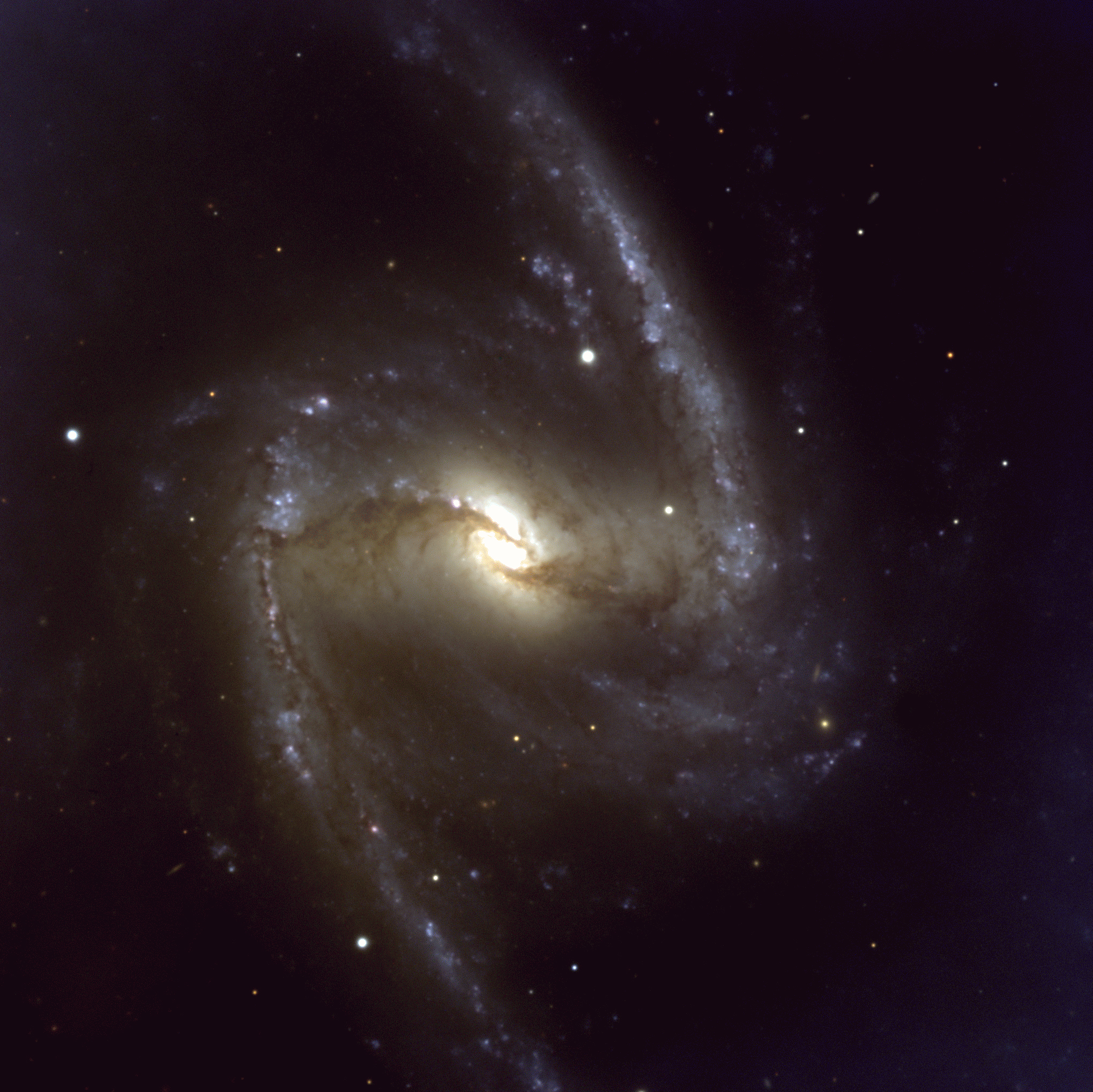 This is a true-colour image of the major part of NGC 1365, combined from three exposures with the FORS1 multi-mode instrument at VLT UT1, in the B (blue), V (green) and R (red) optical bands. The exposure times were 360, 180 and 140 seconds, respectively. The image quality is about 0.8 arcsec. The field measures about 7 x 7 arcmin 2. North is up and East is left. ID: phot-08a-99 Press Release: 05/99 Long Caption: Object: NGC 1365 Telescope: UT1/Antu Instrument: FORS1 Size: 2039x2037 Credit: ESO